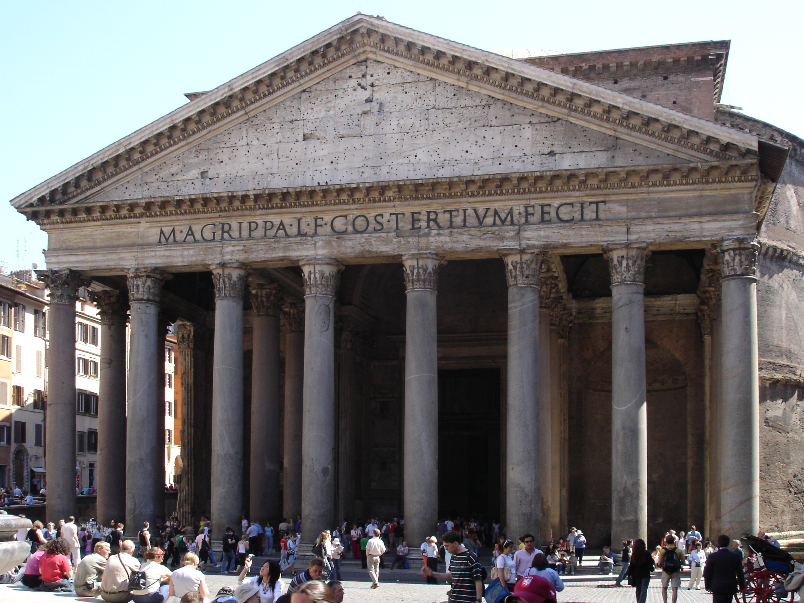 An image of Pantheon in Rome, Italy. Image taken by Martin Olsson (mnemo on wikipedia and commons, ), 2nd of May 2005. This image is published on Wikipedia Commons by Martin Olsson under the GFDL license.